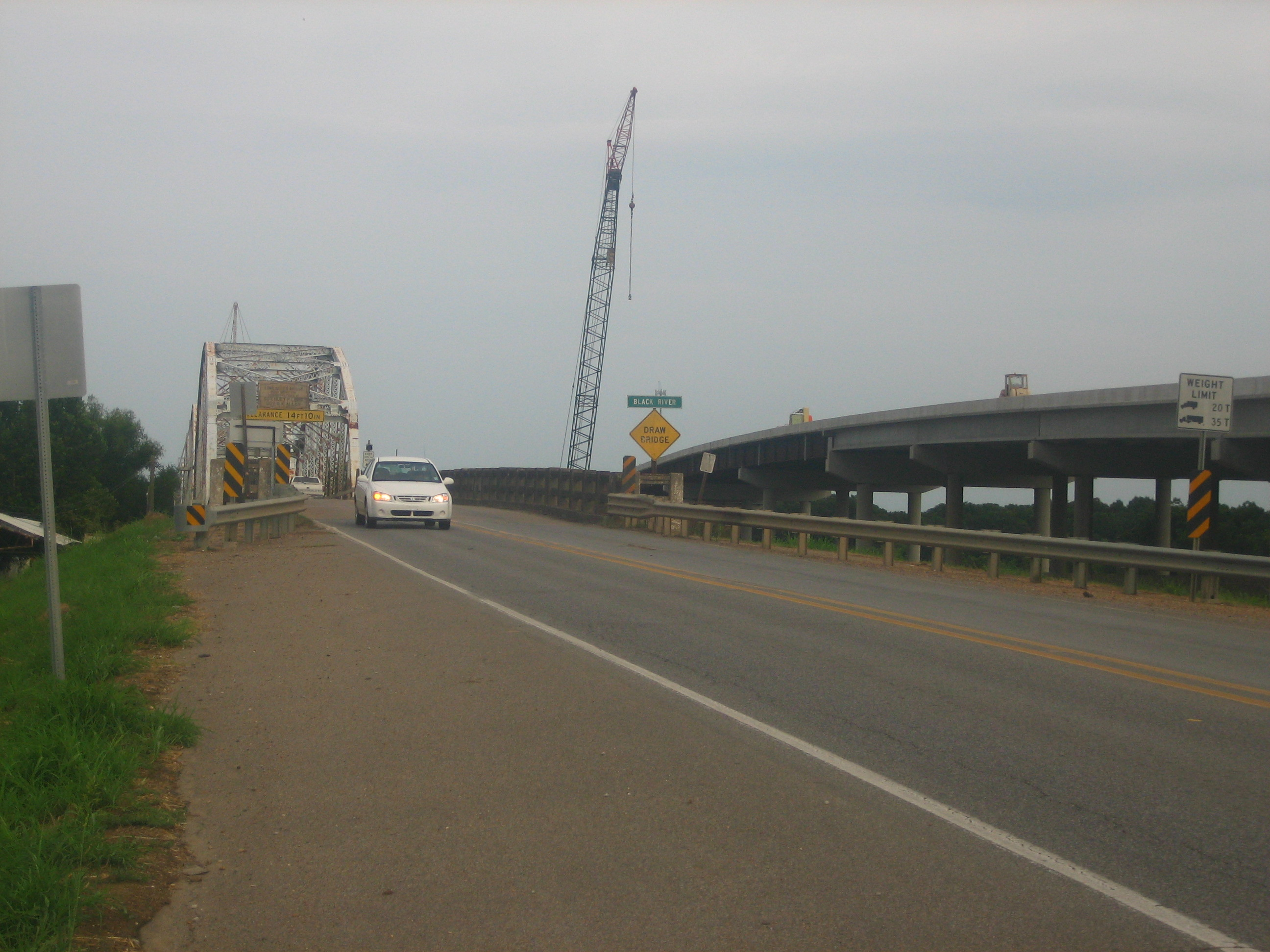 Black River Bridge in Jonesville, Louisiana.